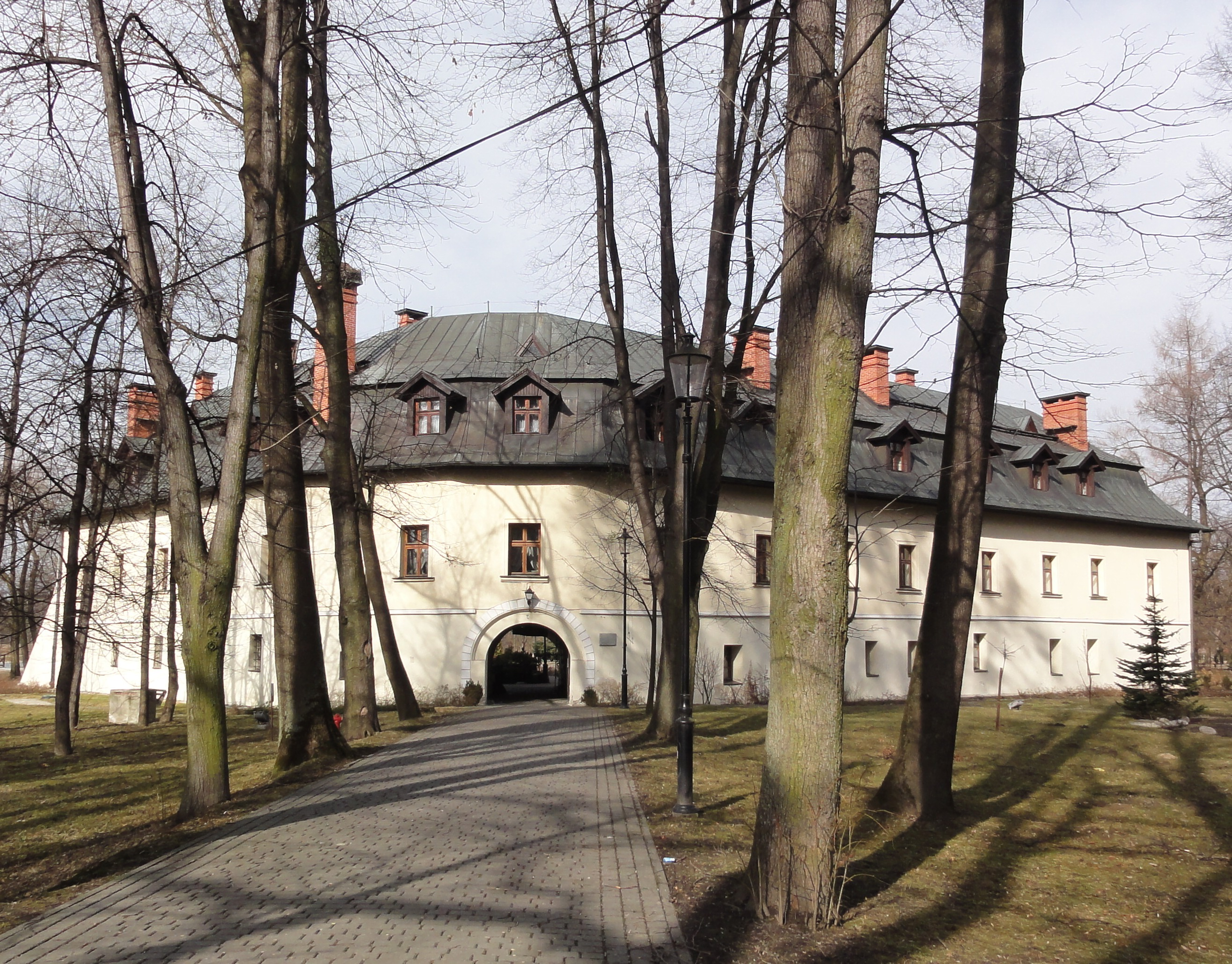 Castle in Kończyce Małe